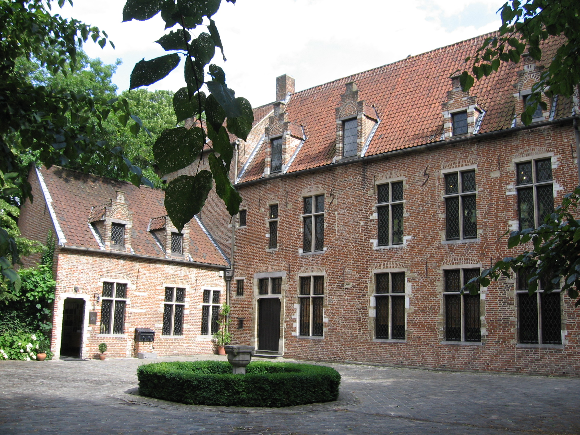 The 'Maison d'Erasme' at Anderlecht (Brussels) where the Renaissance Humanist stayed (now a museum).